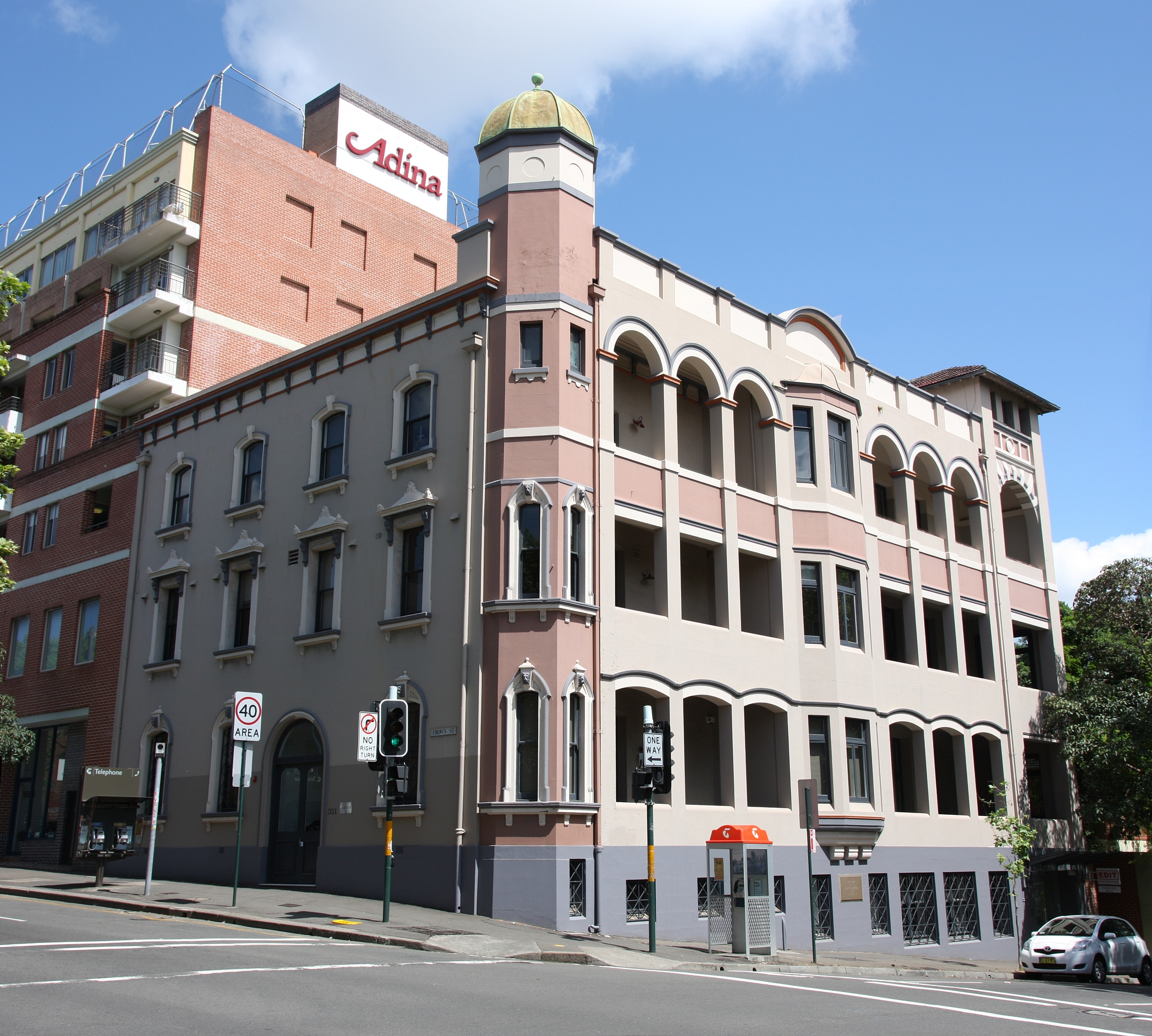 Womens hospital Surry Hills